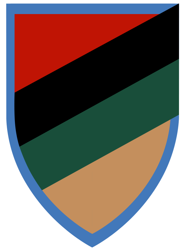 insignia of IDF 252nd Armord Division "Sinai"